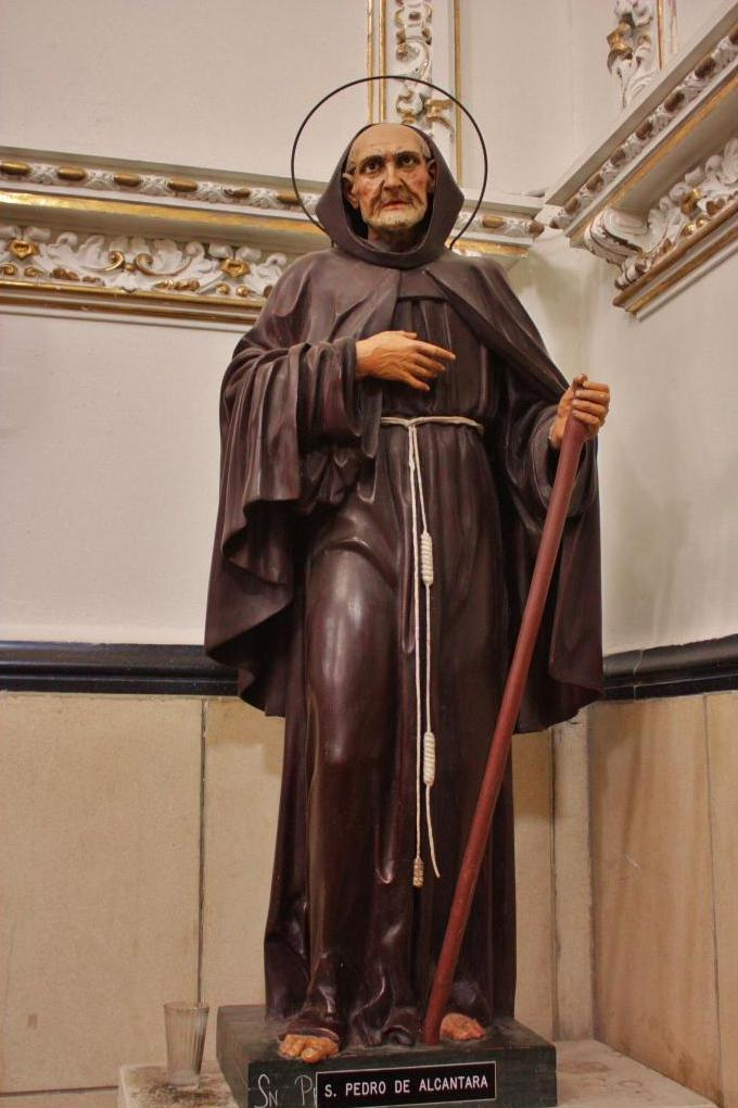 Basilica of Saint Joseph and Our Lady of the Sacred Heart, Cuauhtémoc, Federal District, Mexico